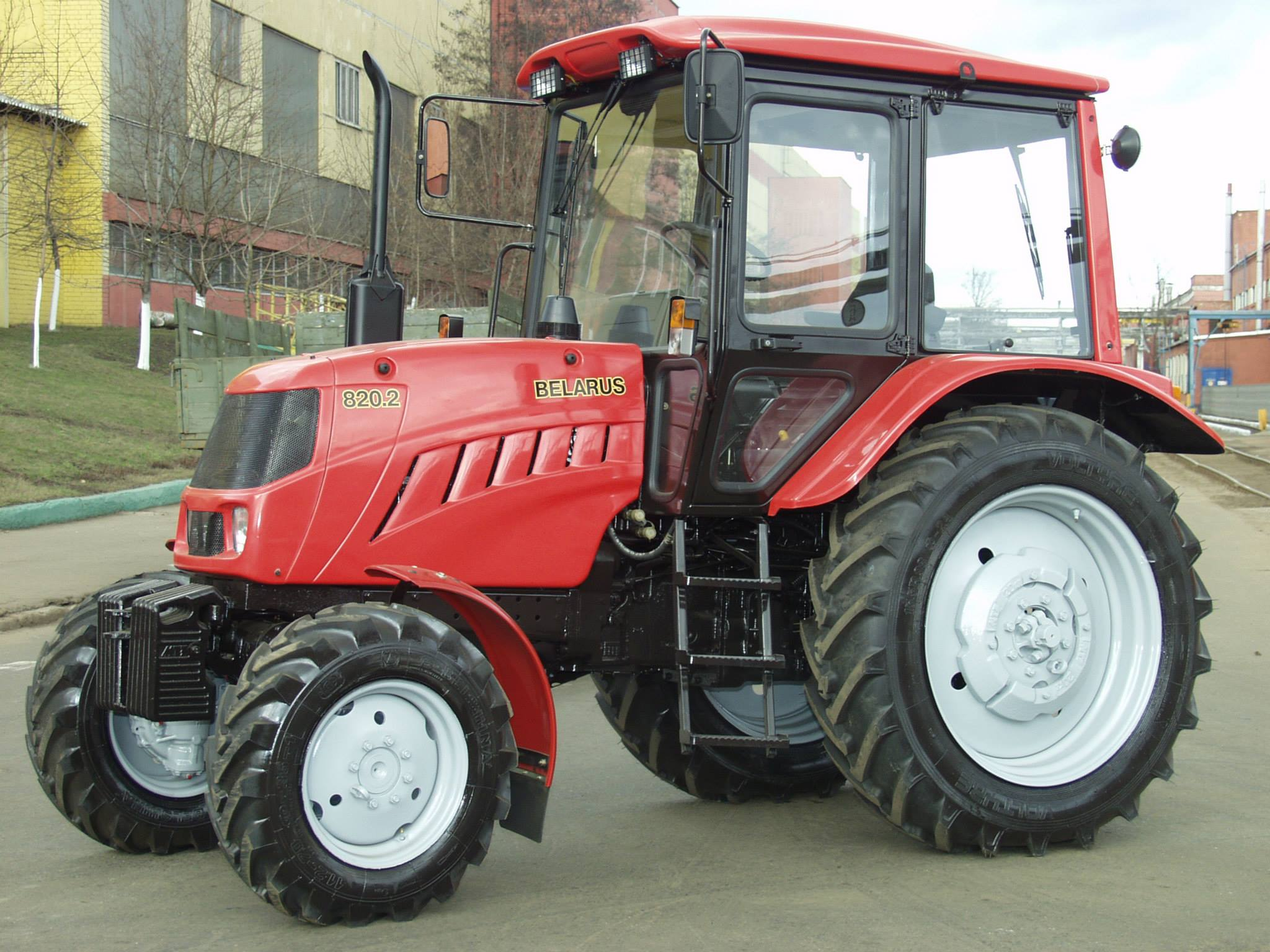 MTZ Belarus tractor 820